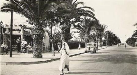 Ezzahra_boulevard_general_de_gaulle_-_Tunisia